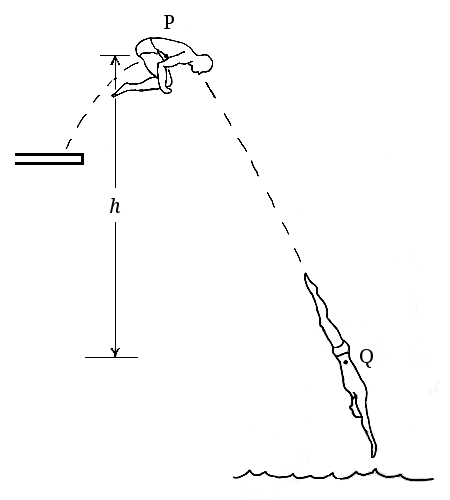 Diver222